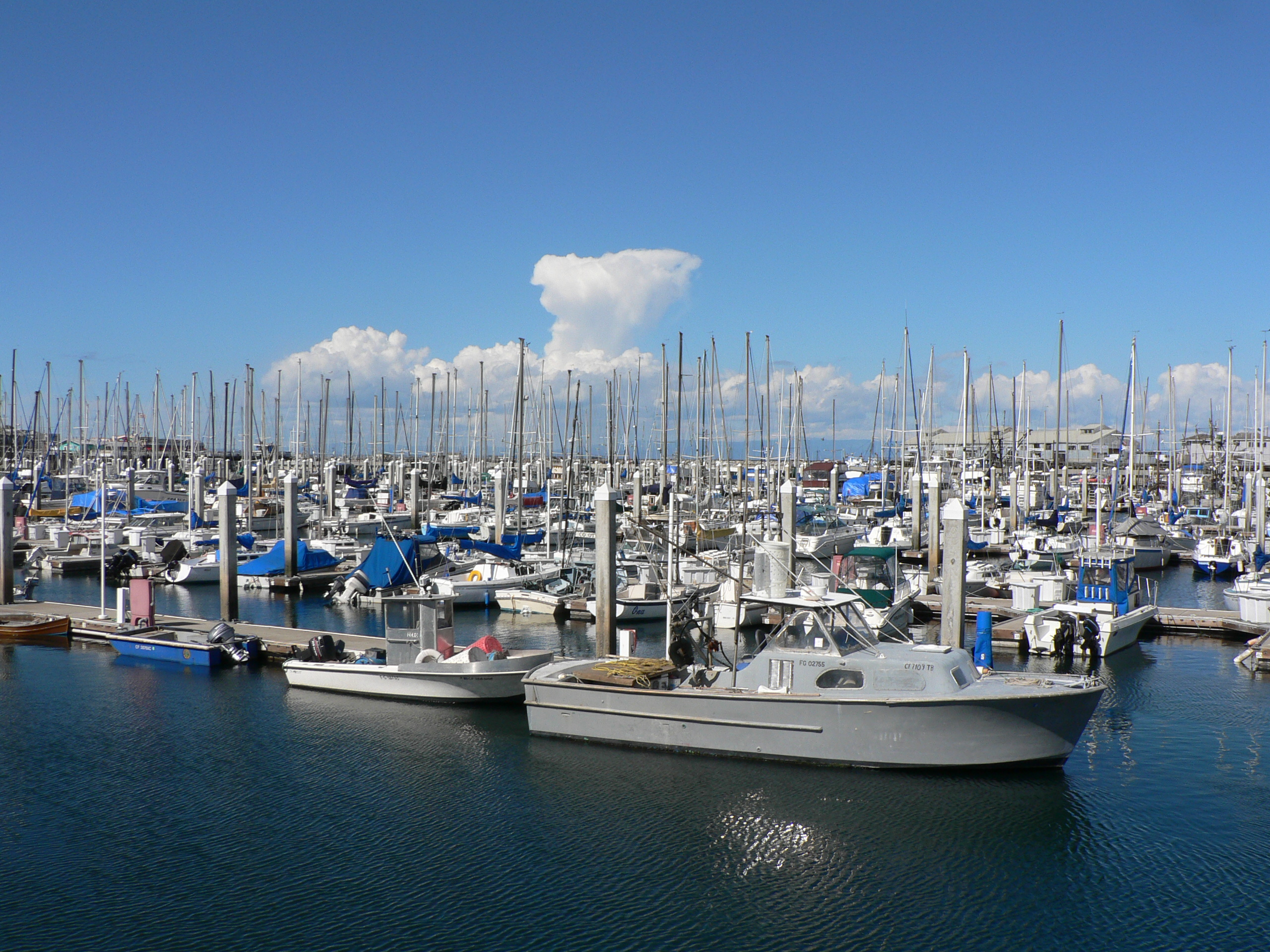 Monterey, California: the harbor